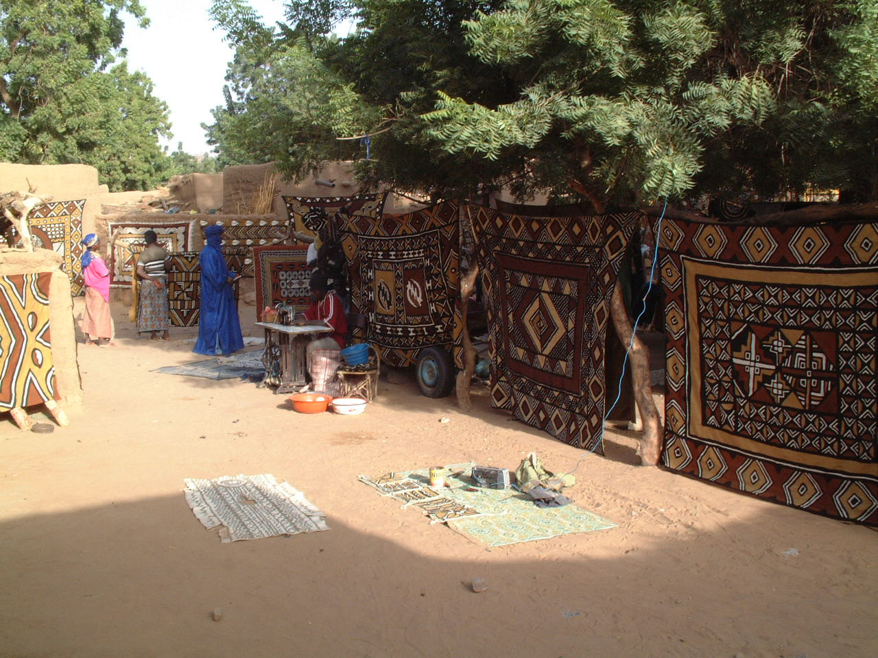 Bogolan cloth in the market of Endé, Mali.